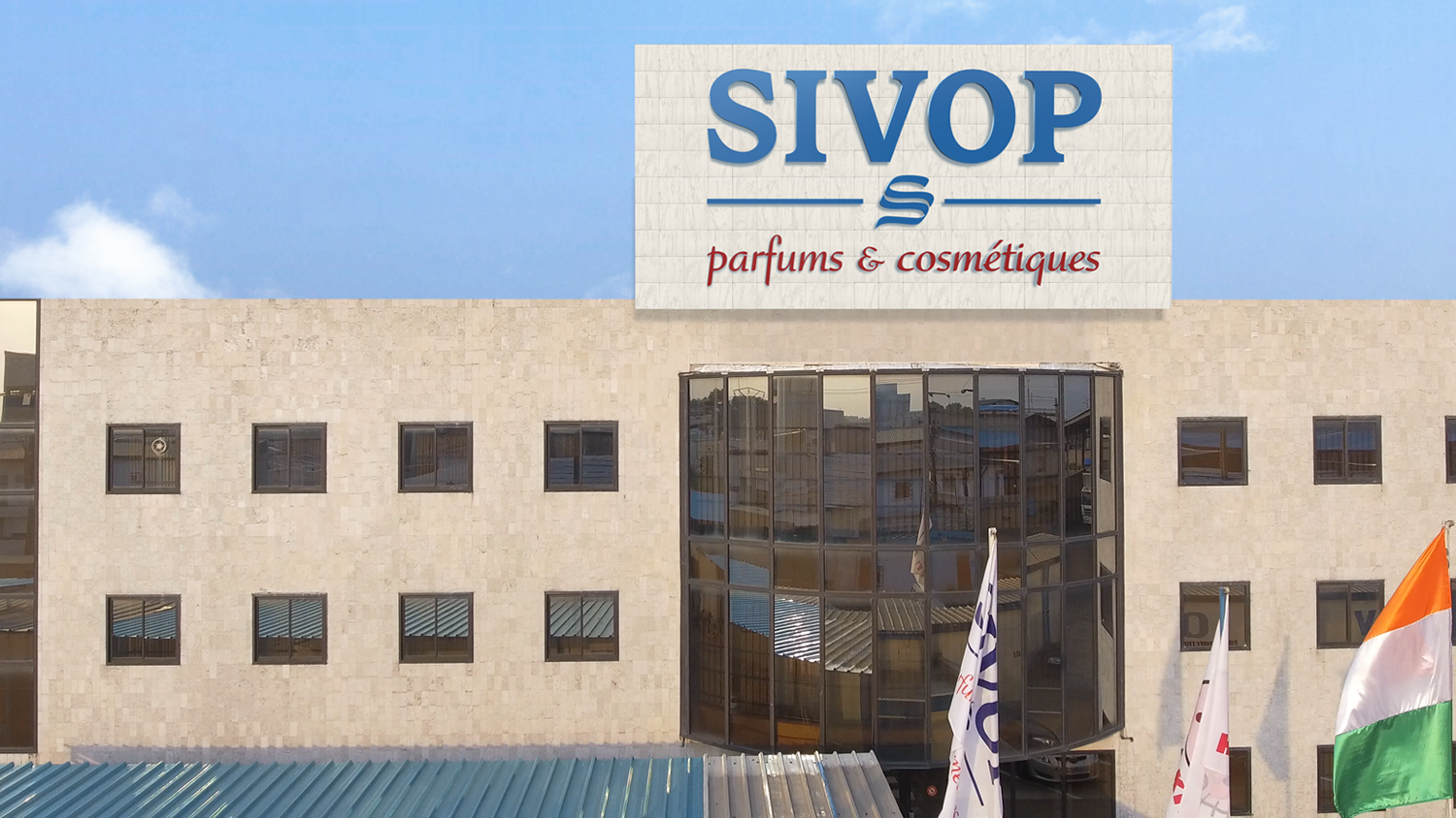 Sivop Ivory Coast